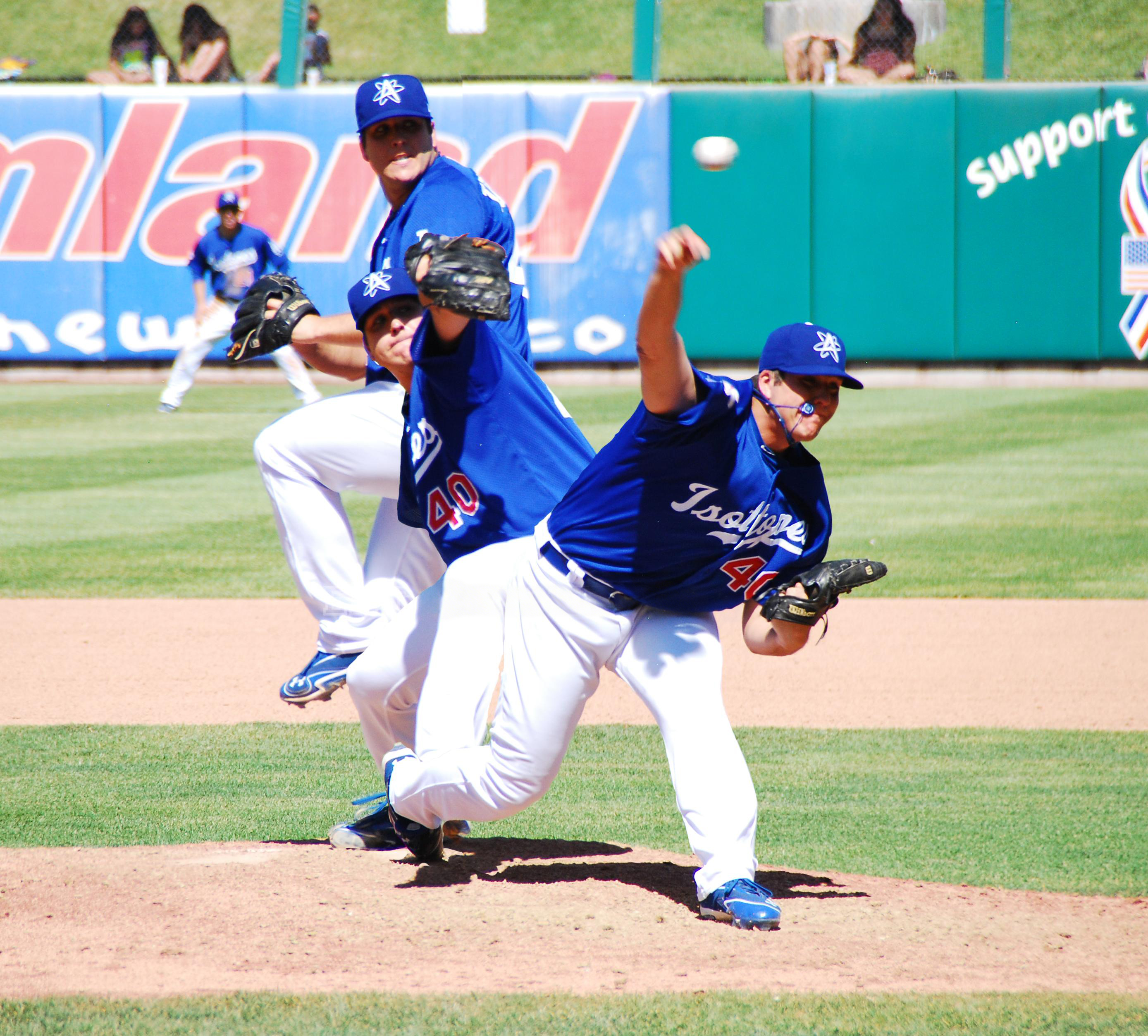 Shawn Tolleson with the Albuquerque Isotopes